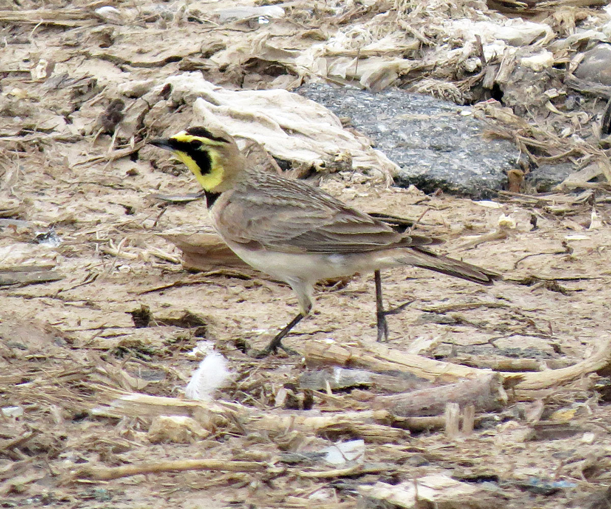 Eremophila alpestris giraudi 16 mar 16 Brownsville landfill, Texas